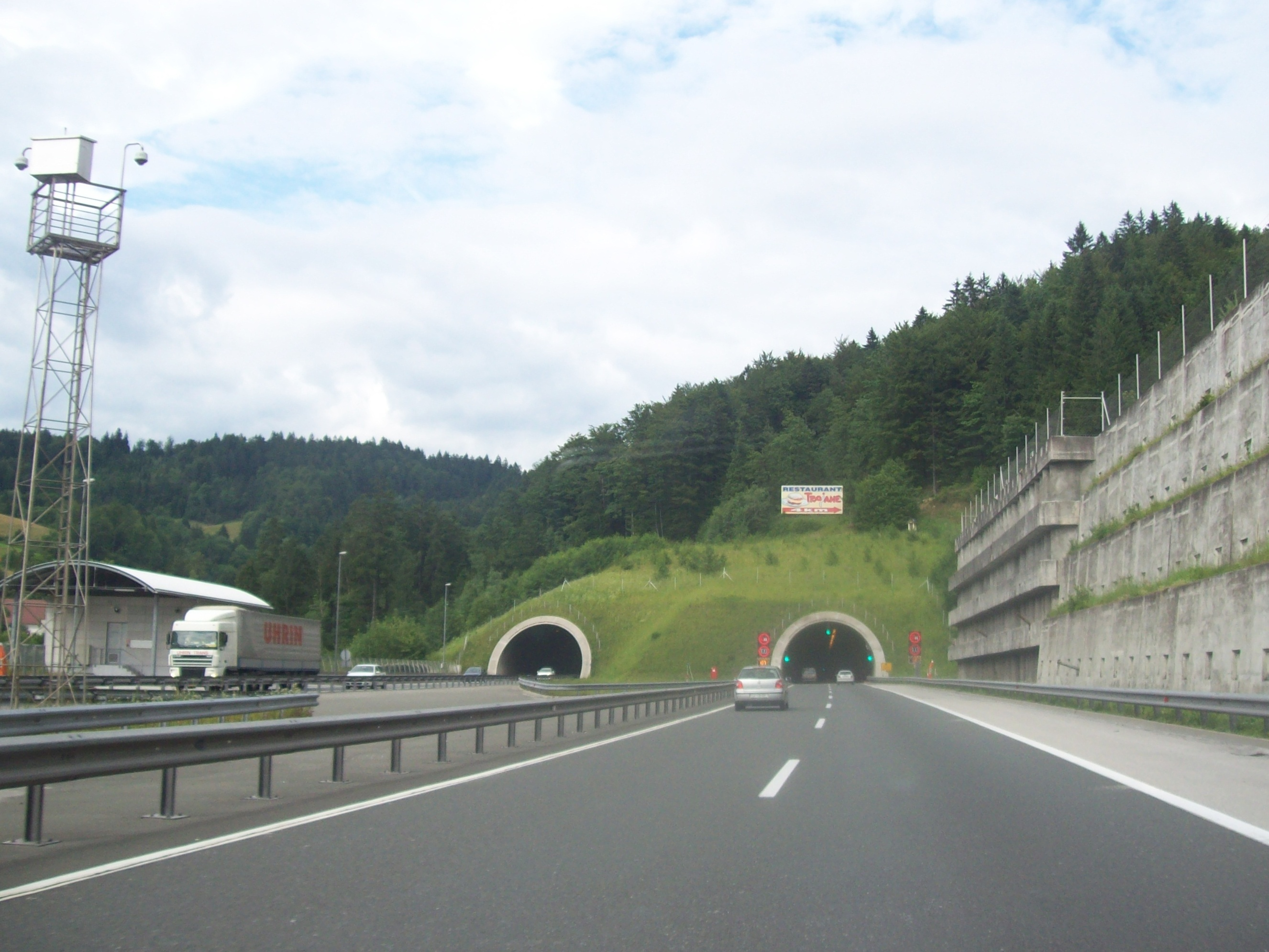 Tunnel Trojane on the A1 motorway in Slovenia